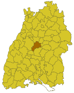 Map of Baden-Württemberg with the former county of Böblingen before 1973